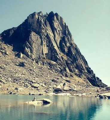 Eastpost Spire, Bugaboos, Purcell Range, British Colombia, Canada